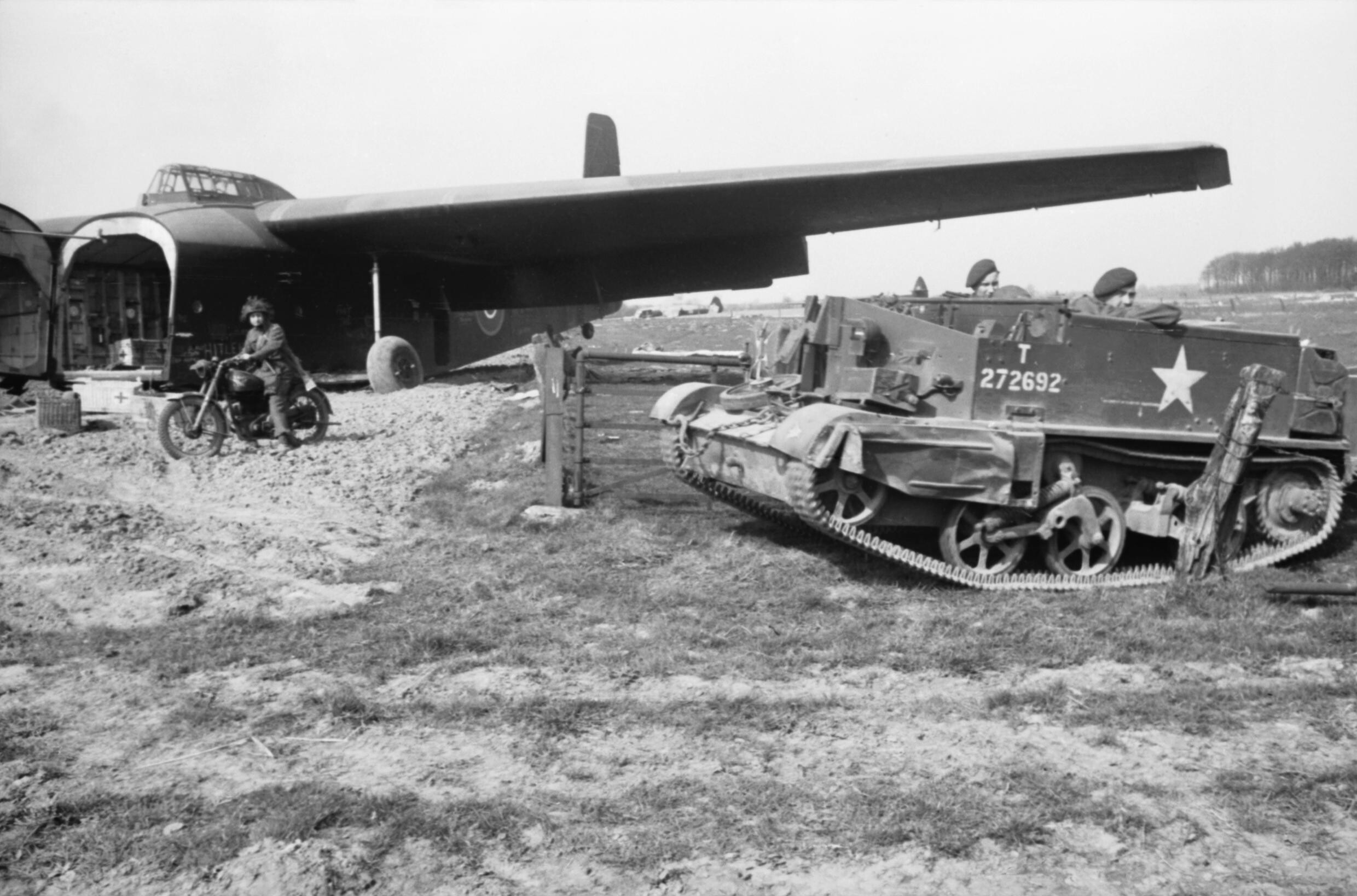 The British Army in North-west Europe 1944-45 A Universal carrier unloaded from a Hamilcar glider during the Rhine crossing, 24-25 March 1945.